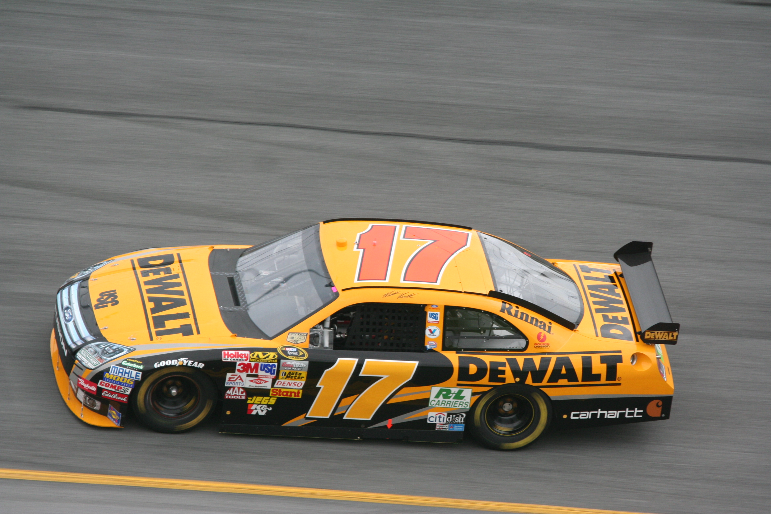 Shot by The Daredevil at Daytona during Speedweeks 2008